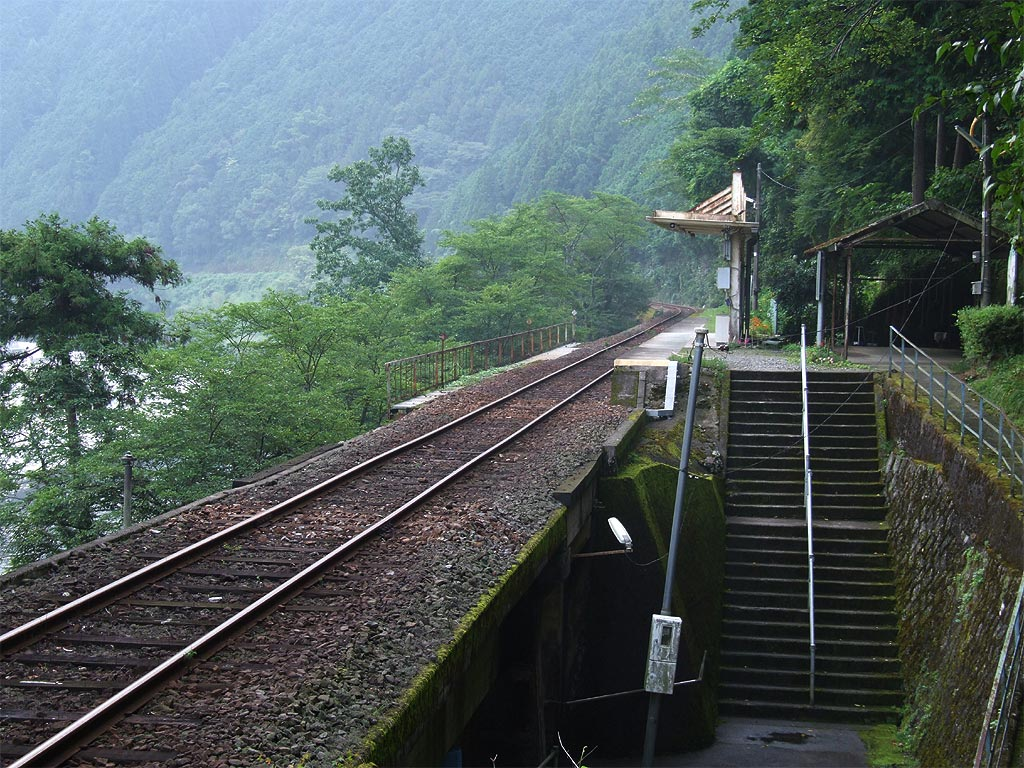 Nishikigawa railway Nishikigawa-Seiryu line. Naguwa station.